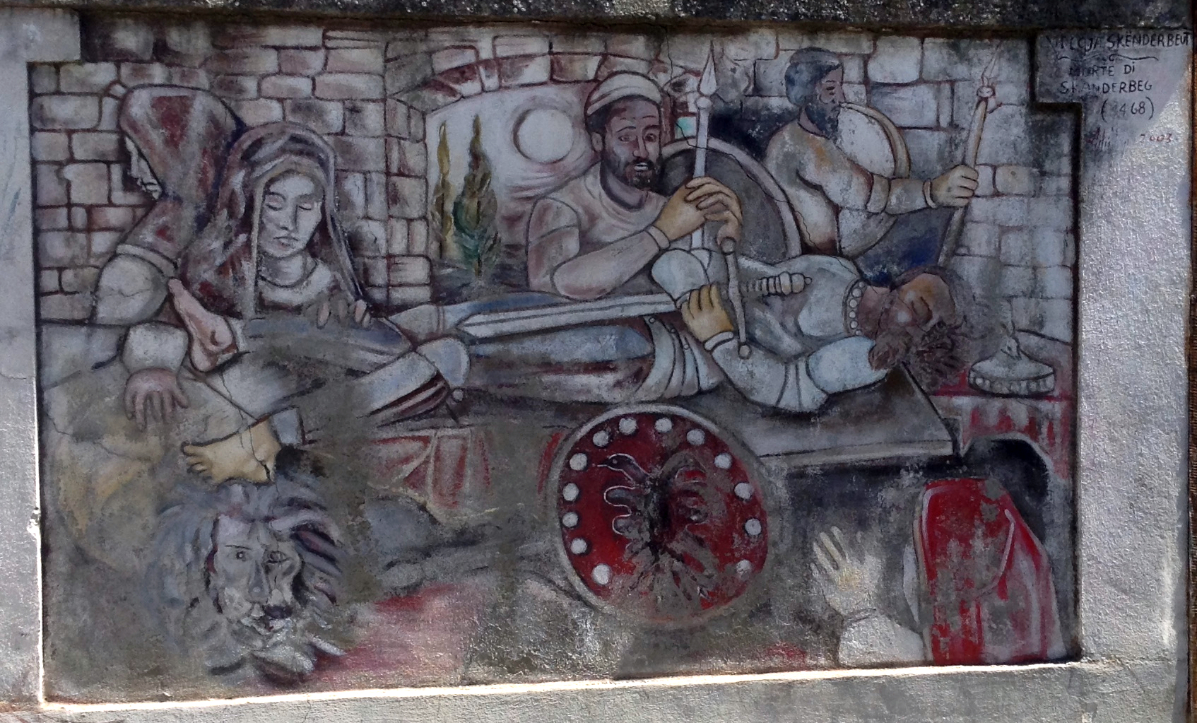 Murales in Via SP 63 del Rubbio, San Costantino Albanese, Potenza, Calabria; death of Skanderbeg; Painter= Enzo Schillizzi (1955-2009)